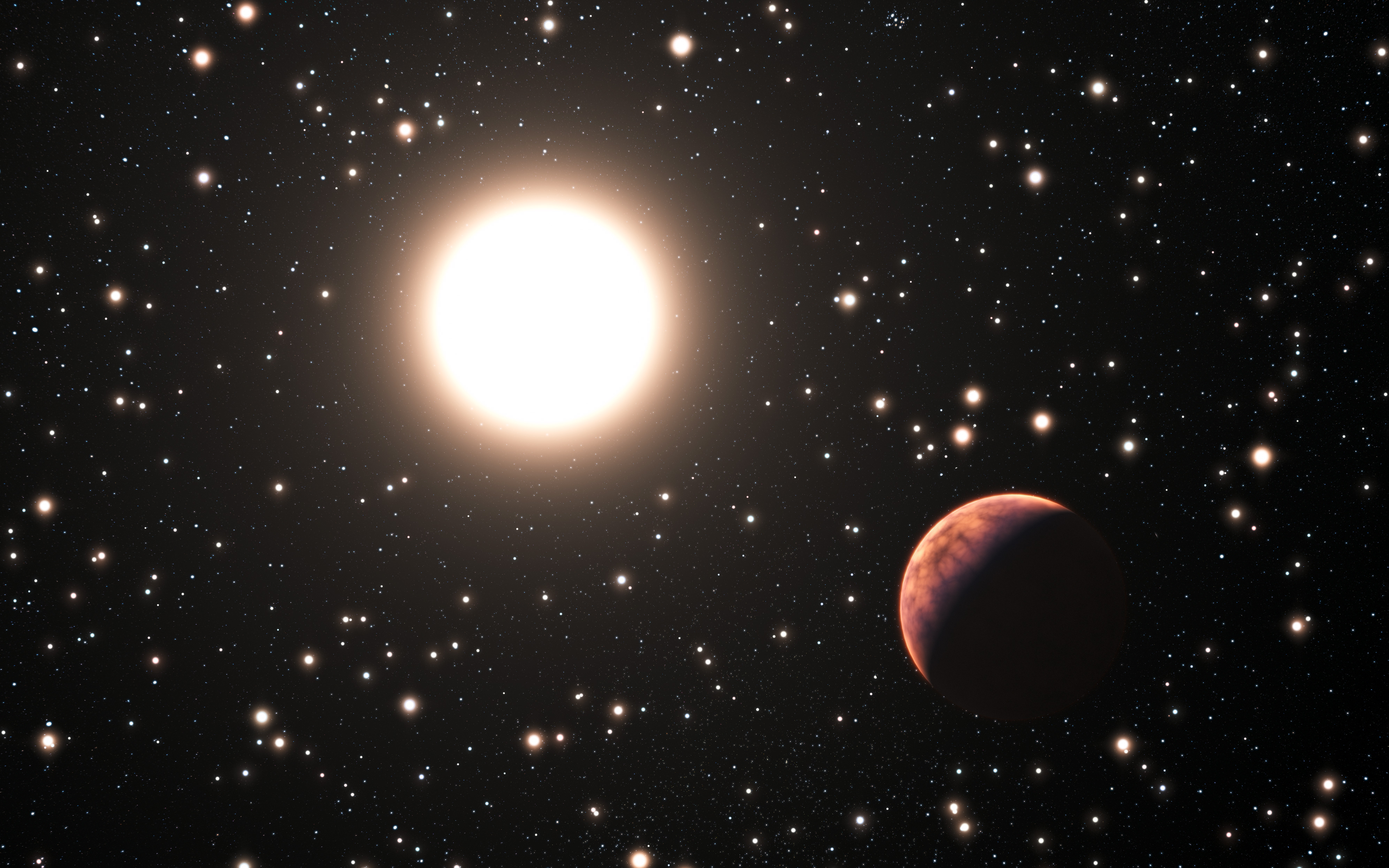 This artist's impression shows one of the three newly discovered planets in the star cluster Messier 67. In this cluster the stars are all about the same age and composition as the Sun. This makes it a perfect laboratory to study how many planets form in such a crowded environment. Very few planets in clusters are known and this one has the additional distinction of orbiting a solar twin — a star that is almost identical to the Sun in all respects.